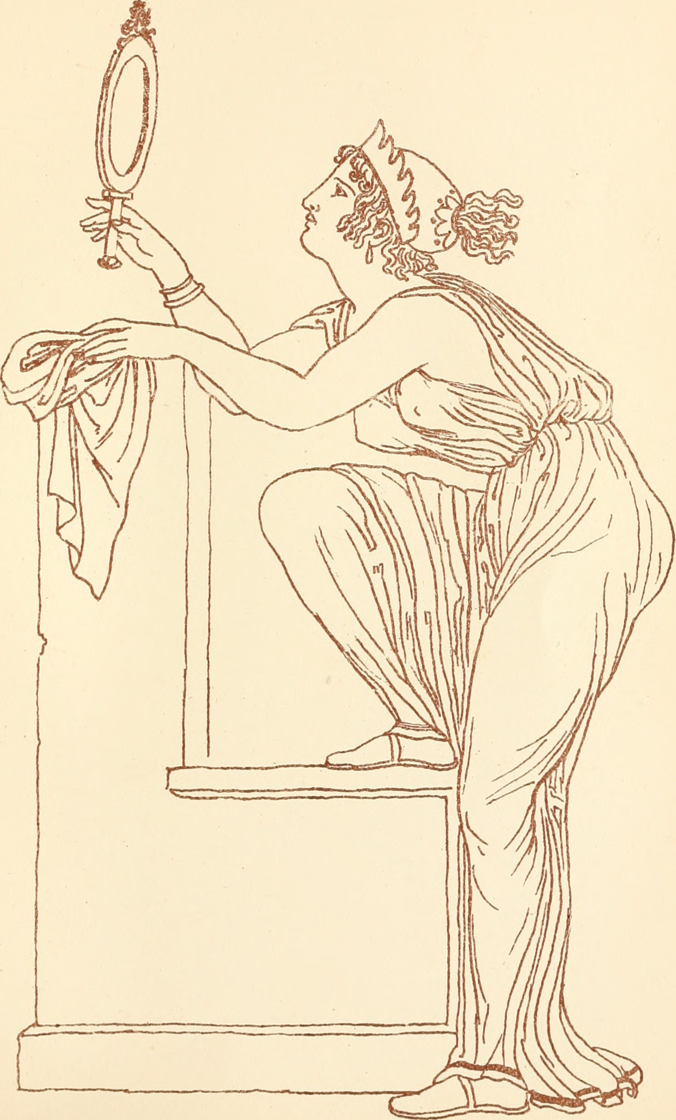 Title: Ancient Greek female costume : illustrated by one hundred and twelve plates and numerous smaller illustrations ; with descriptive letterpress and descriptive passages from the works of Homer, Hesiod, Herodotus, Aeschylus, Euripides, Aristophanes, Theocritus, Xenophon, Lucian, and other Greek authors Year: 1882 (1880s) Authors: Smith, J. Moyr, 1839-1912 Subjects: Costume -- Greece Women -- Greece Publisher: London : Sampson Low, Marston, Searle, & Rivington Text Appearing Before Image: 91 Text Appearing After Image: 98